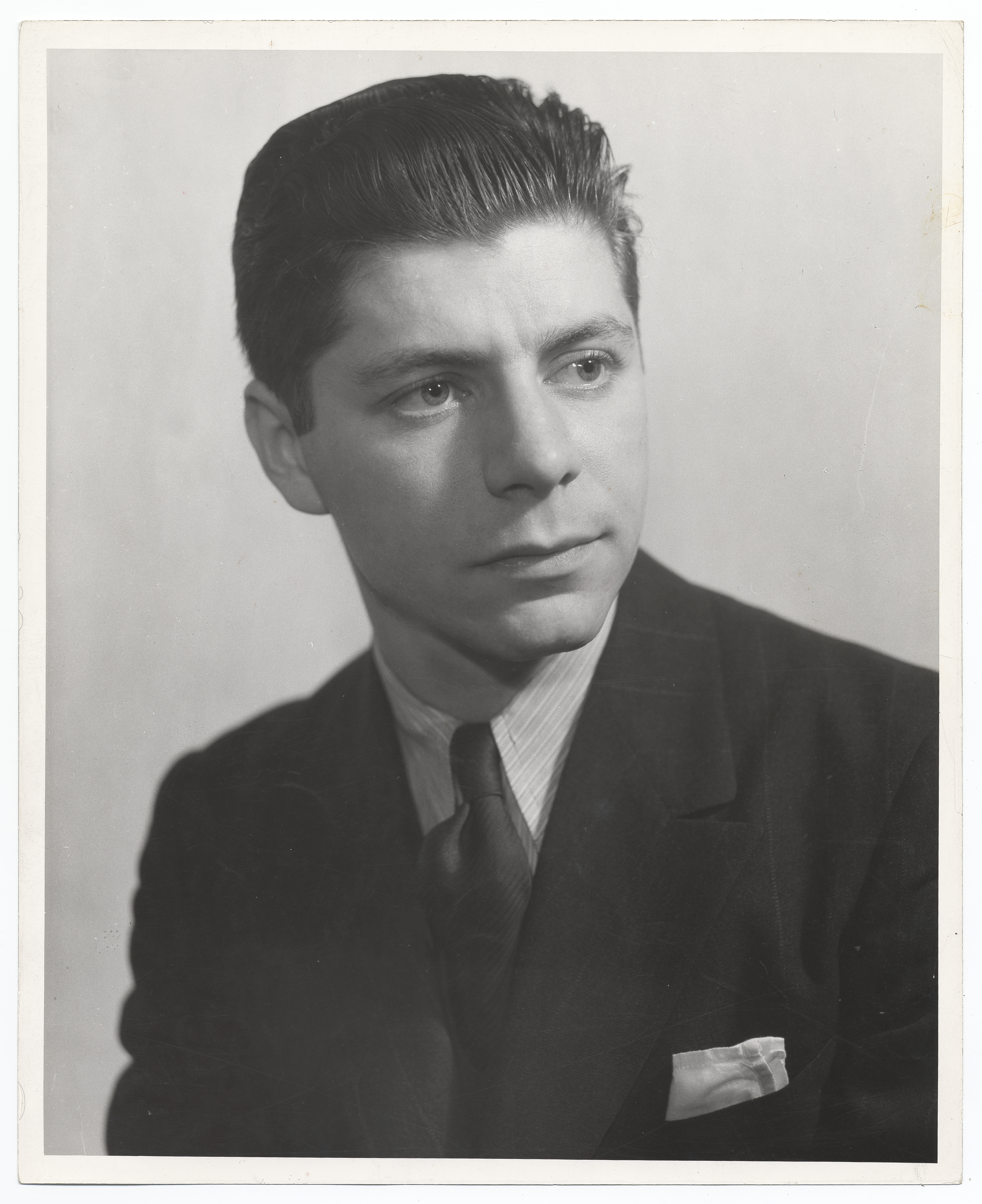 Identification on verso, right (handwritten and stamped): Artist: Seymour Fogel Identification on verso, left (handwritten and stamped): Federal Art Project W.P.A.; Photographic Division; 13 East 37th St.; New York City Location: Mural Dept; Date: 4/13/37; Negative No.: P687; Photographer: Truehoff.